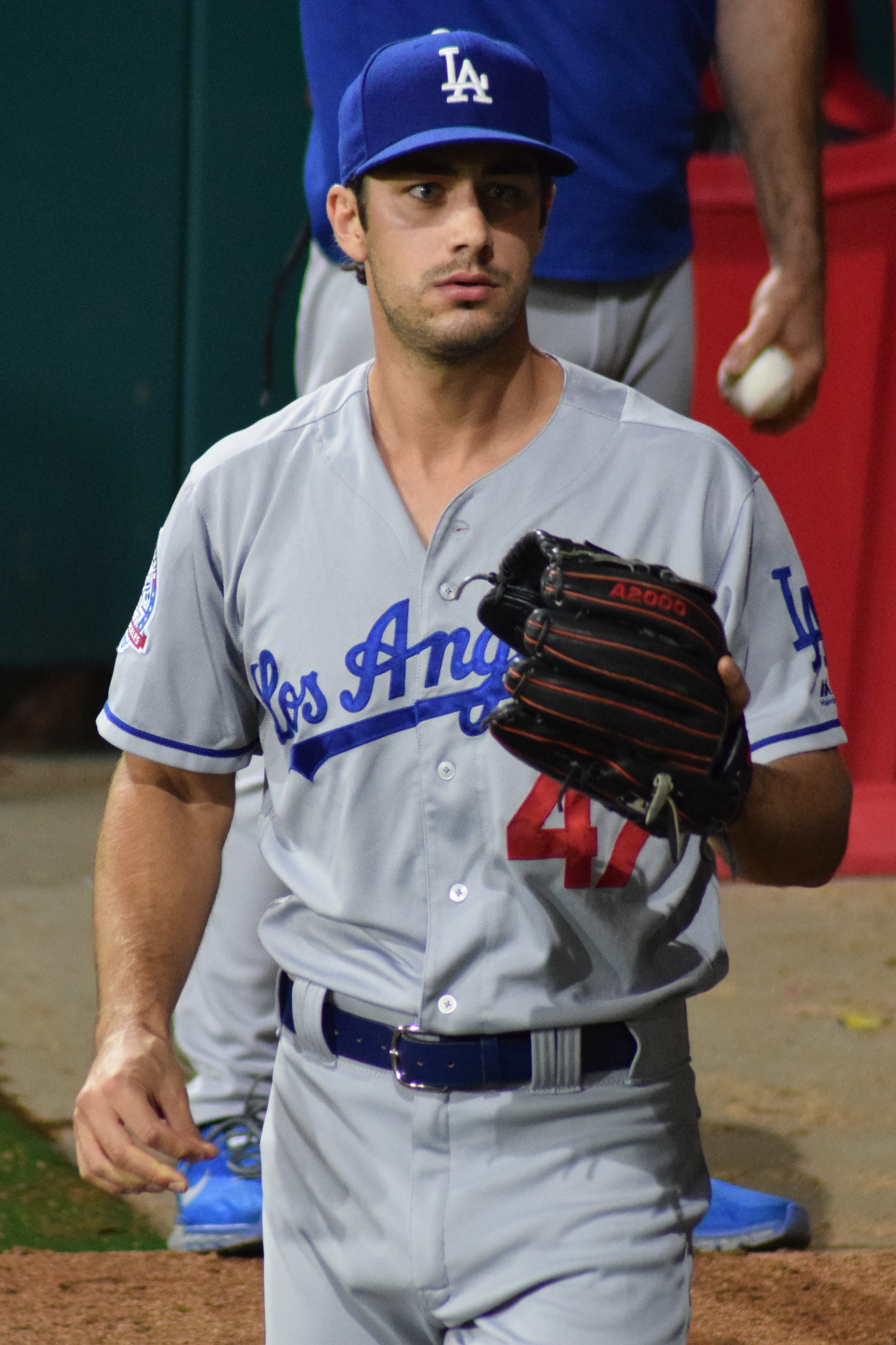 Los Angeles Dodgers relief pitcher JT Chargois